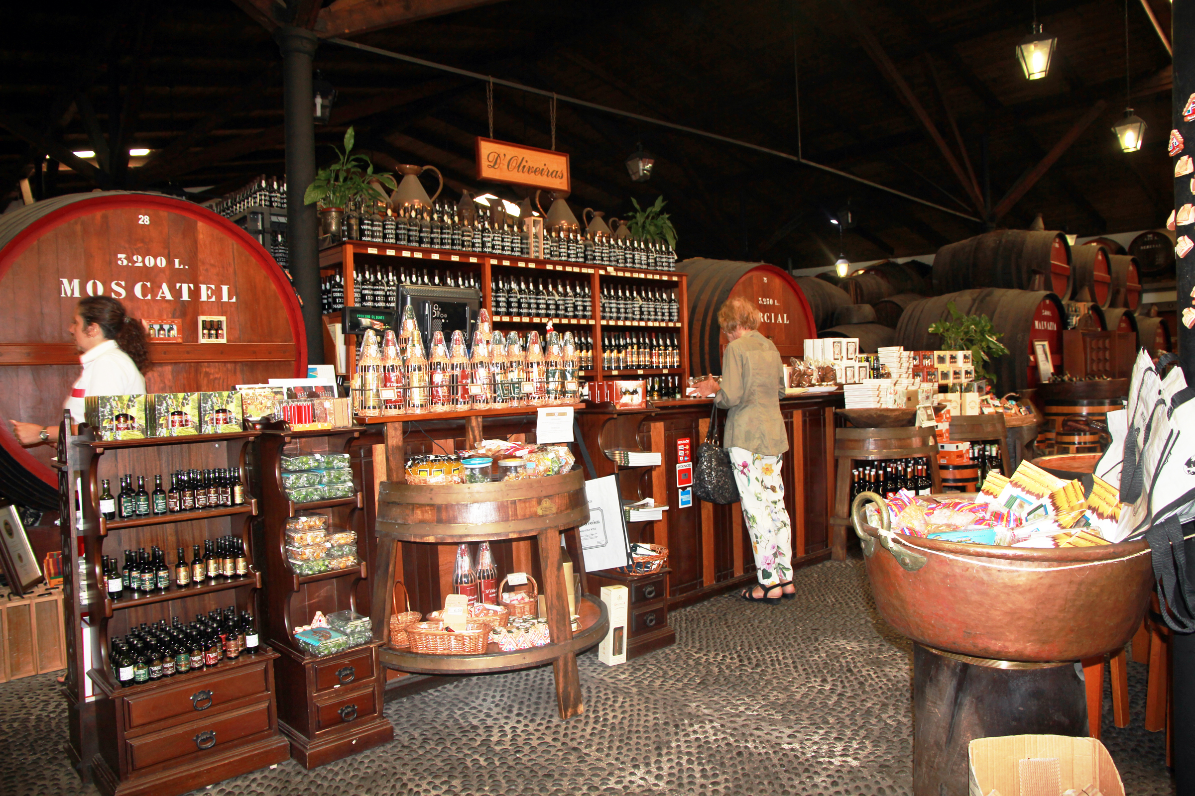 The indoors of the company Pereira D`Oliveiras for Madeira wine production and selling near in the centre of city Funchal, Madeira 2016